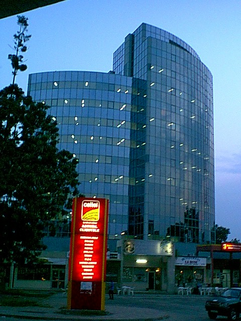 This is an image with the theme "Africa on the Move or Transport" from: Congo